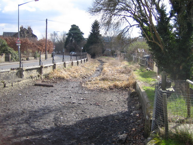 River Chess at Waterside, Chesham. The dry river bed of the Chess viewed looking downstream with Waterside road to the left.